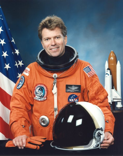 portrait astronaut Byron Lichtenberg